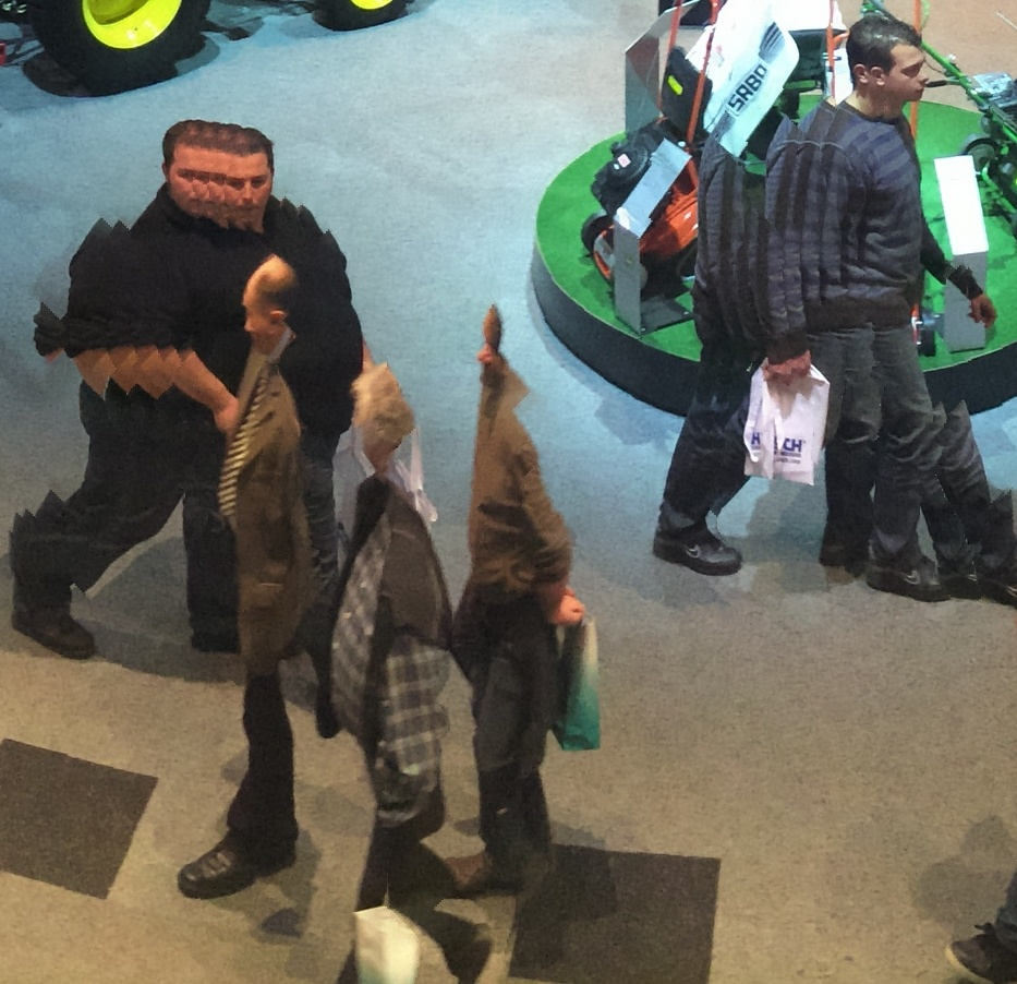 Agritechnica 2013, John Deere